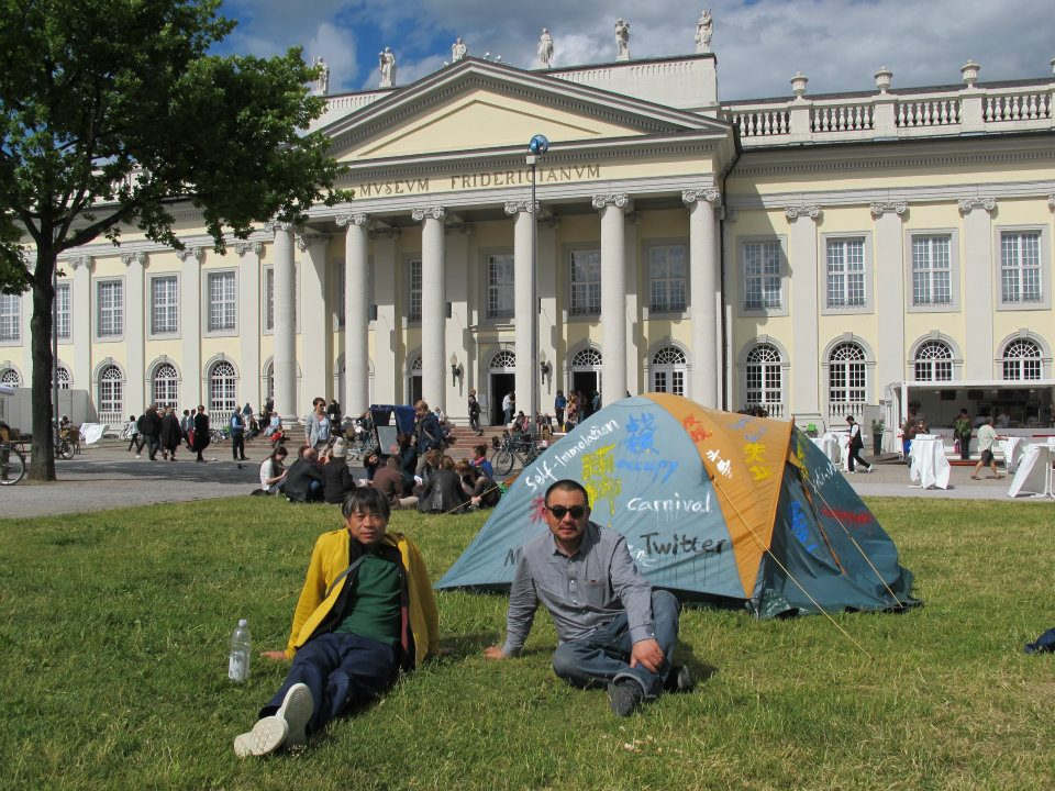 Jian Jun Xi (right) & Cai Yuan (left) outside the Fridericianum museum, Kassel, Germany.